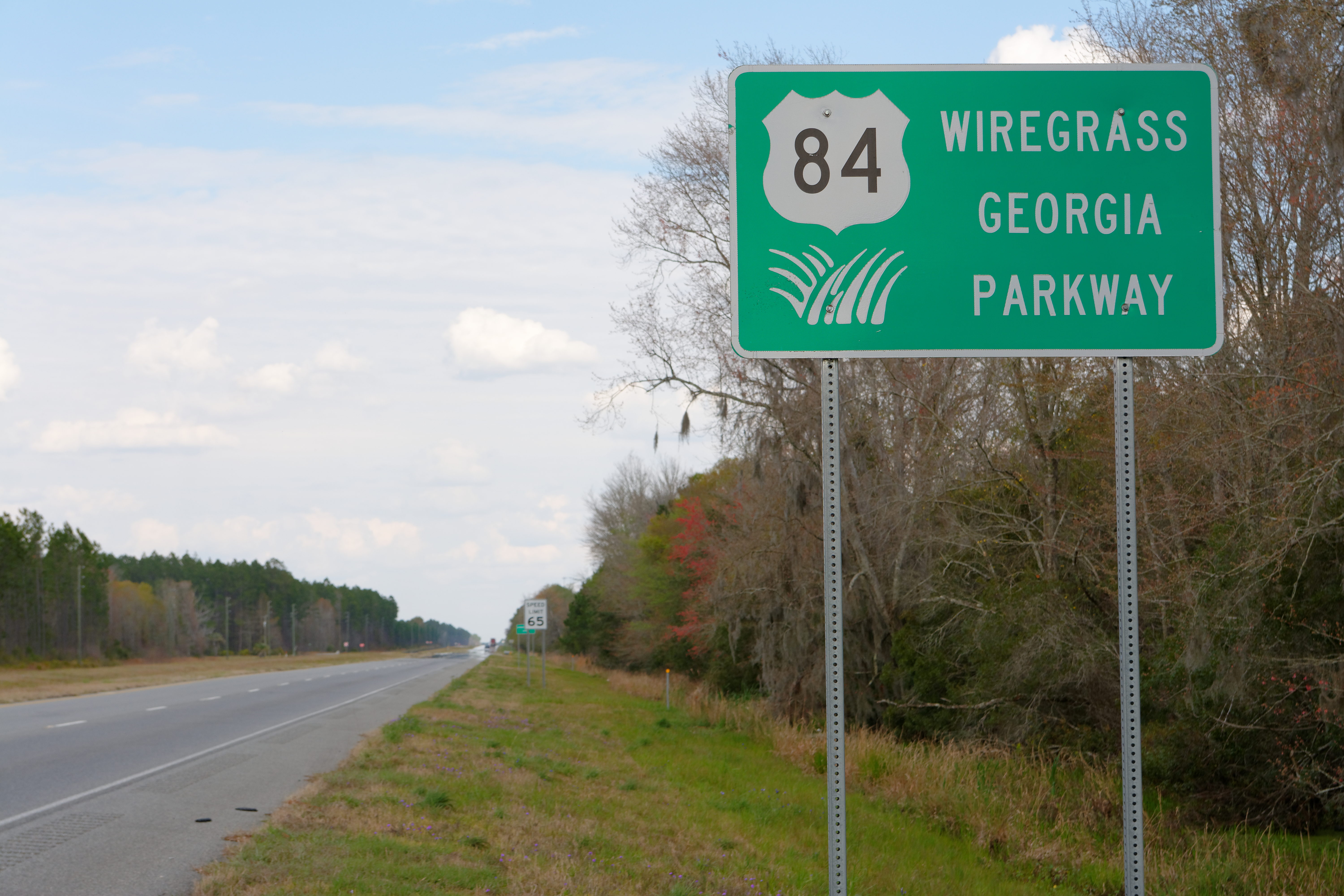 A sign along US 84 in Clinch County, showing "Wiregrass Georgia Parkway", eastbound on US 84, near western Clinch County border